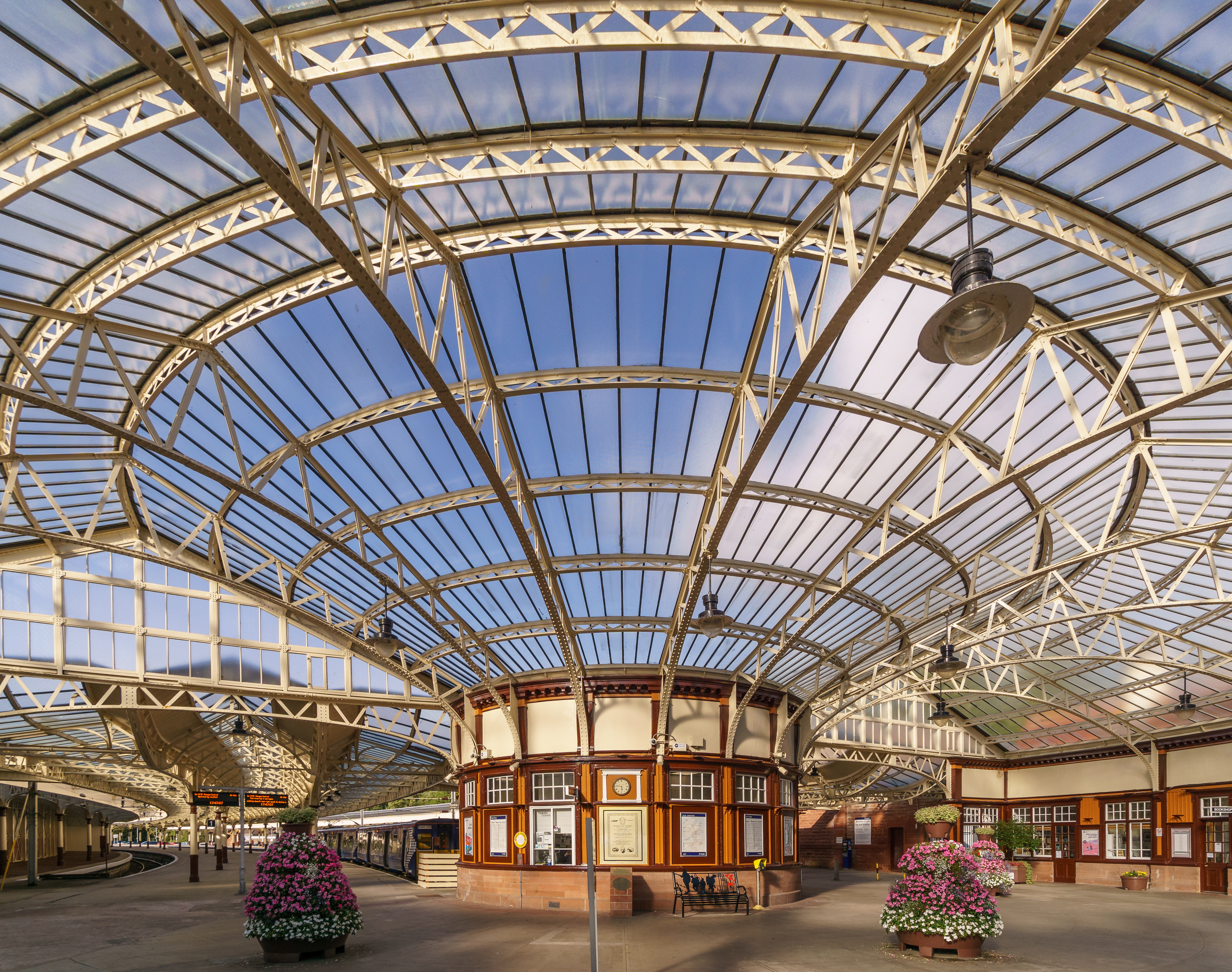 Wemyss Bay railway station concourse, ticket office and roof Wikidata has entry Q2120161 with data related to this item.